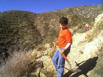 Trail maintainance volunteers are brought in and coordinated by the San Gabriel Mountains Trailbuilders. In the Angeles National Forest, San Gabriel Mountains, Los Angeles County, southern California.